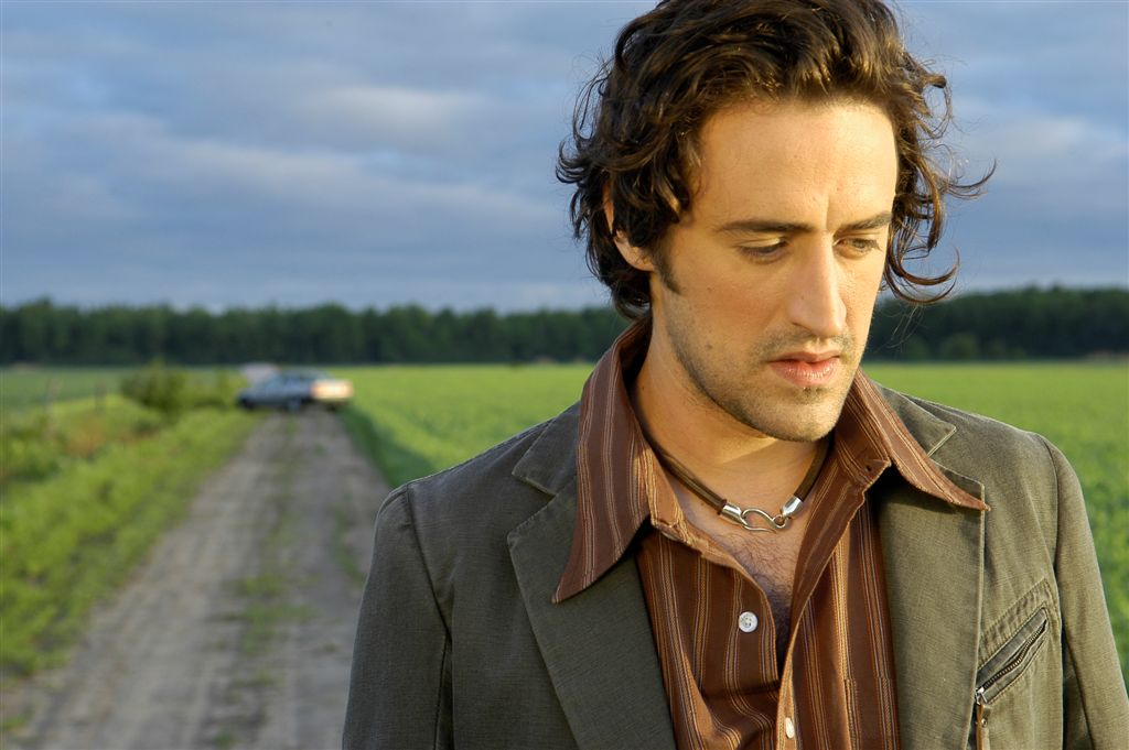 Sébastien Lacombe by Victor Diaz Lamich